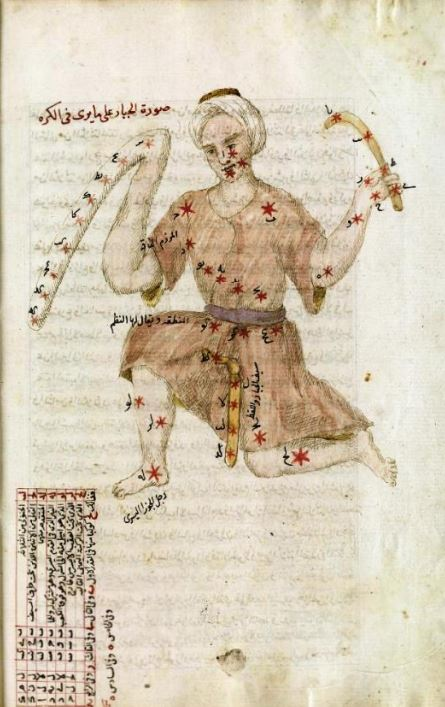 The constellation Orion in a 1602 CE copy of Kitāb suwar al-kawākib al-ṯābita. Believed to be made from another copy dated 1013/14 The left leg is marked as the star Rigel, rijl al-jauza al-yusra (the left leg of Orion)